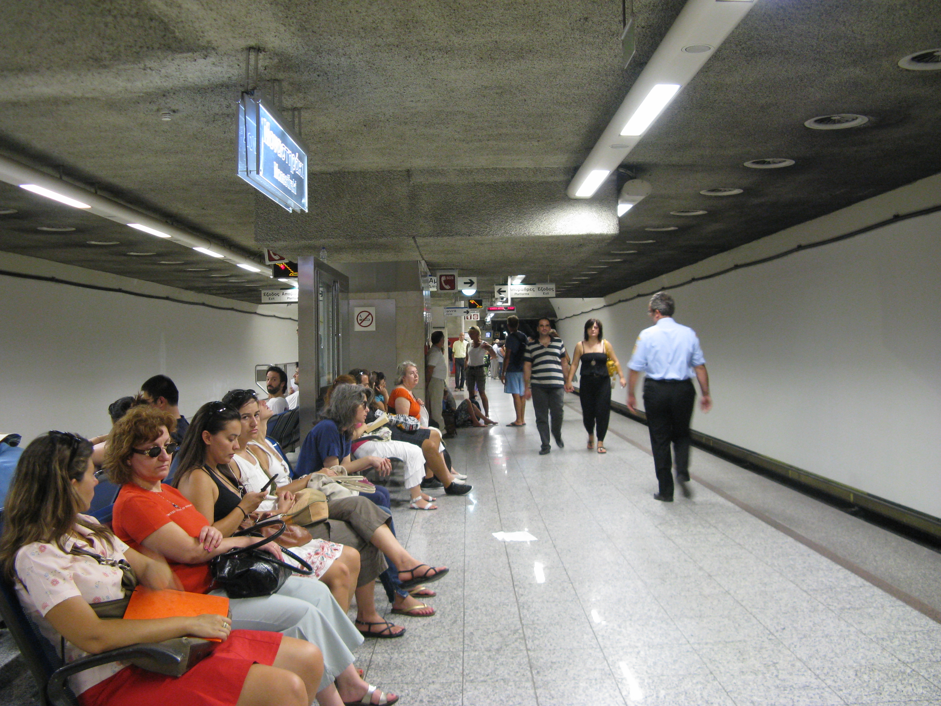 Monastiraki station, Athens metro.